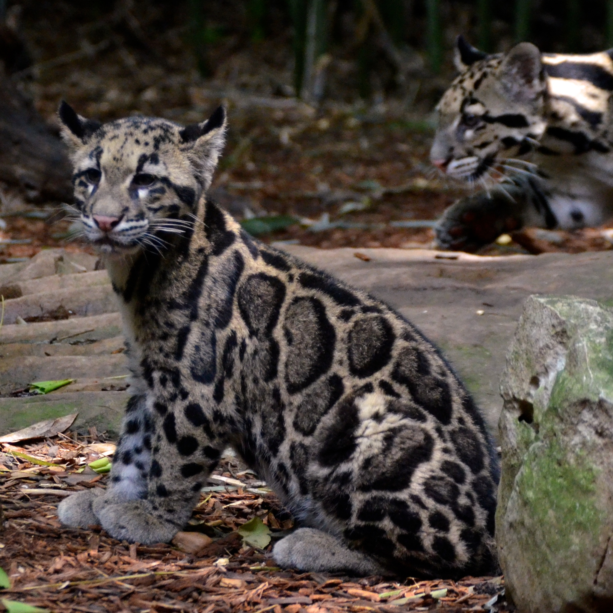 Sitting Clouded Leopard